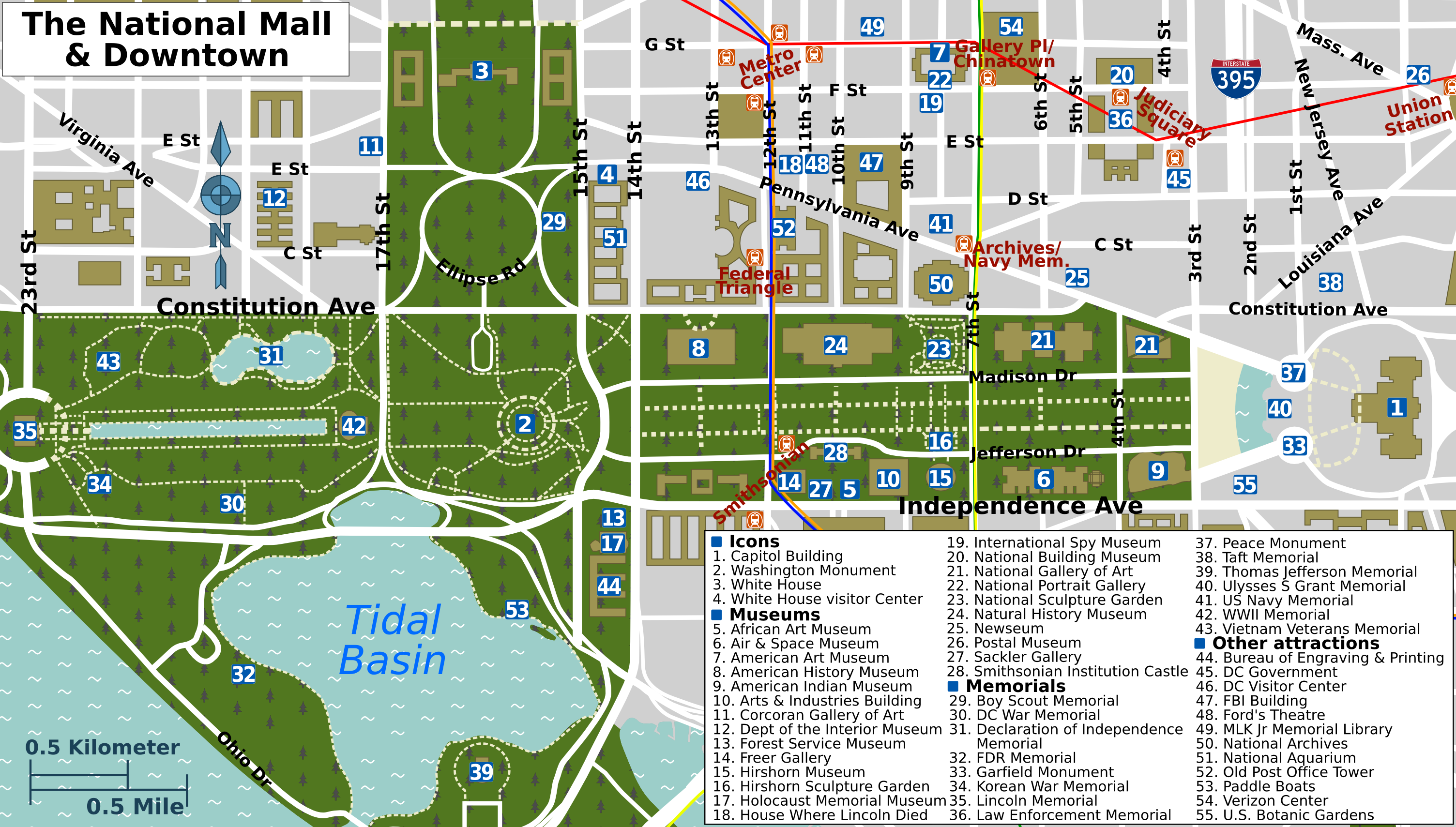 National Mall map. Attractions only (all 50 of them), Washington, D.C.